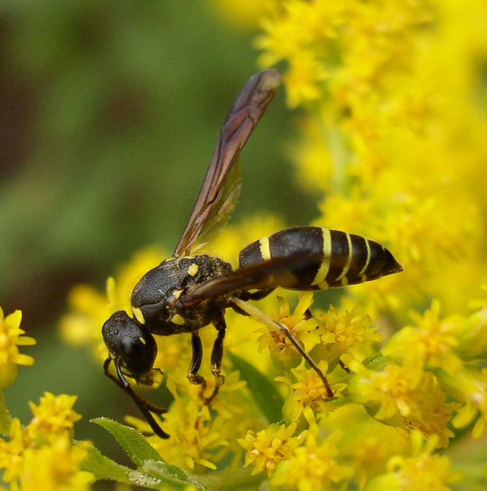 Potter wasp Ancistrocerus antilope female, Peace Valley Nature Center, Bucks County, Pennsylvania, USA.